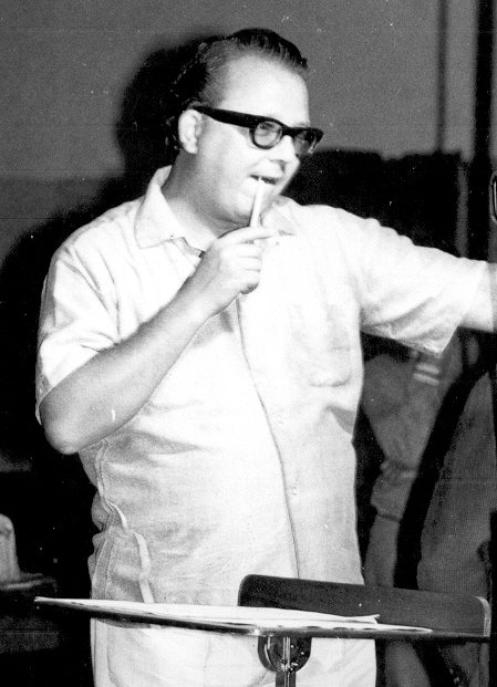 Picture of German guitarist, composer and conductor Siegfried Behrend